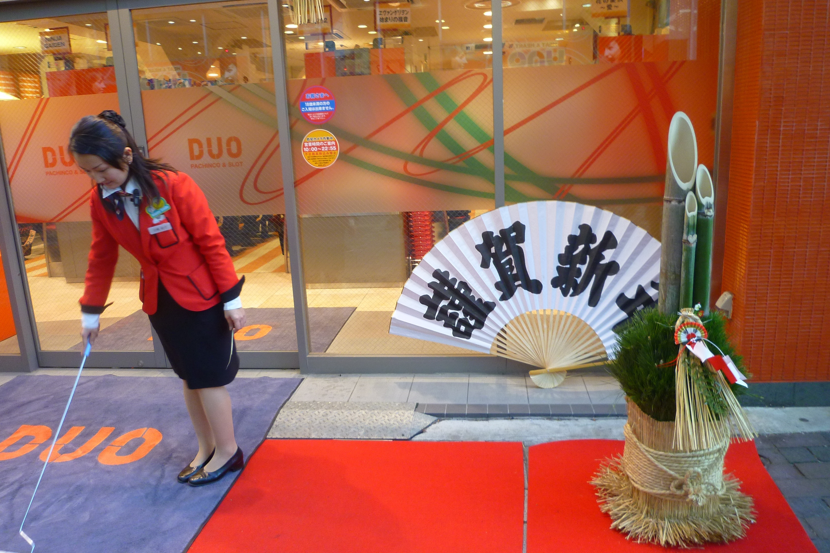 Kadomatsu (門松) in front of a pachinko parlor. One of the staff members cleans up outside the doors.